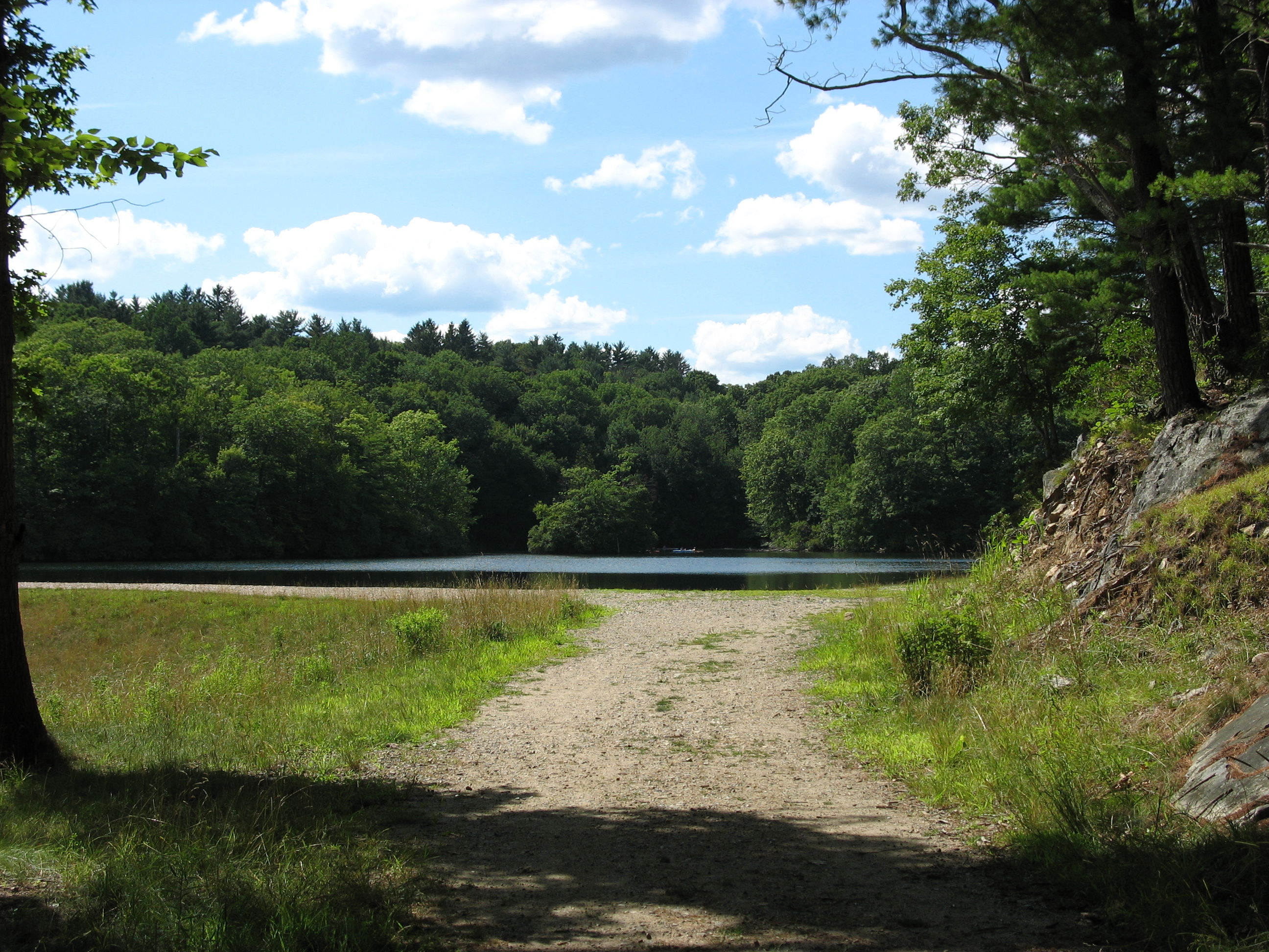 Pond at Huntington State Park in Redding Connecticut